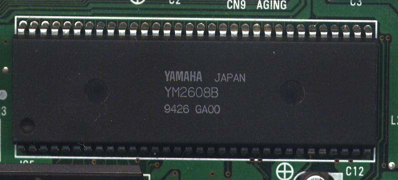 YM2608 FM & PSG Synthesizer on PC-9801-86